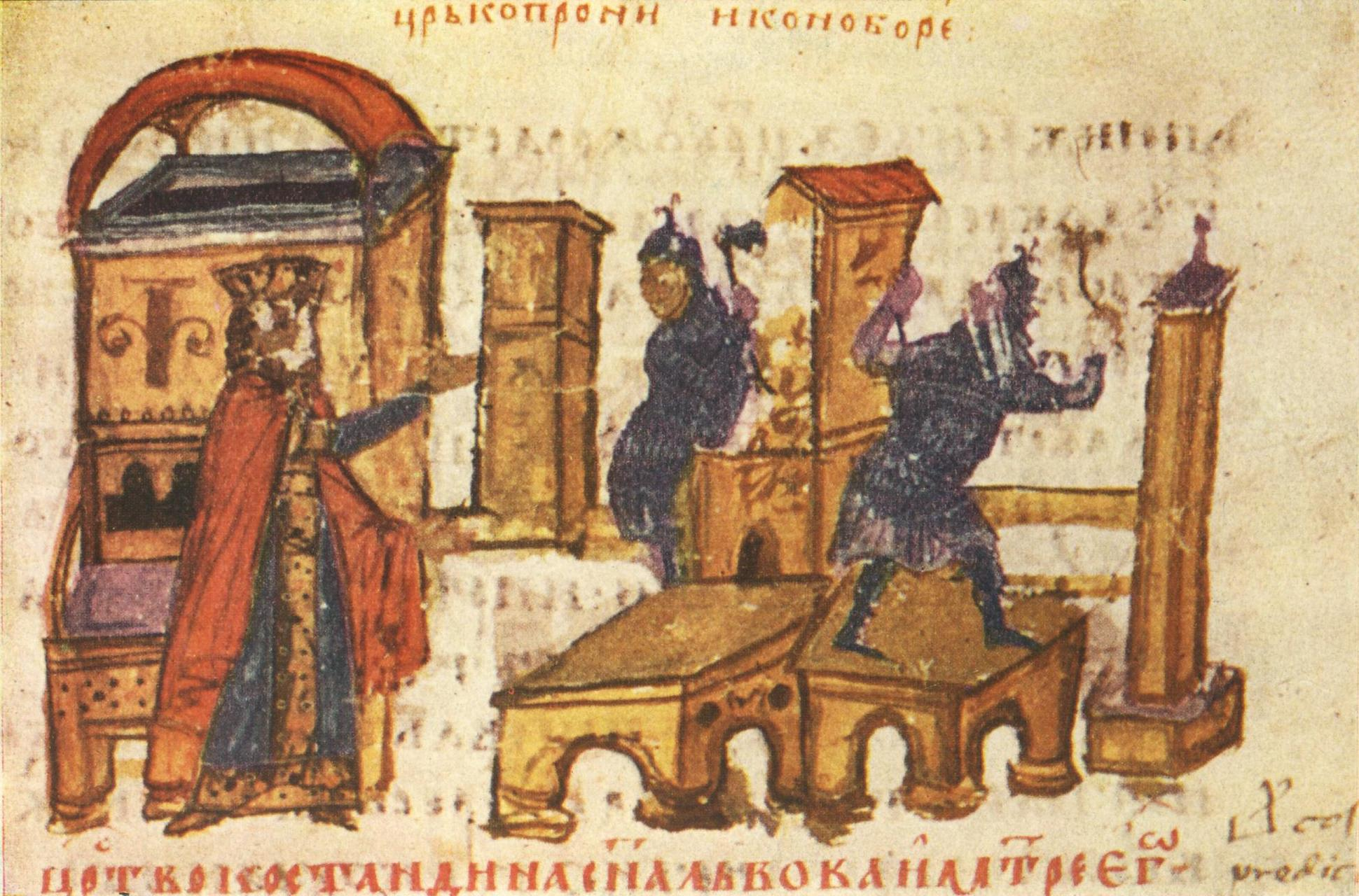 Miniature 48 from the Constantine Manasses Chronicle, 14 century: Destruction of a church under the orders of the iconoclast emperor Constantine V Copronymus.